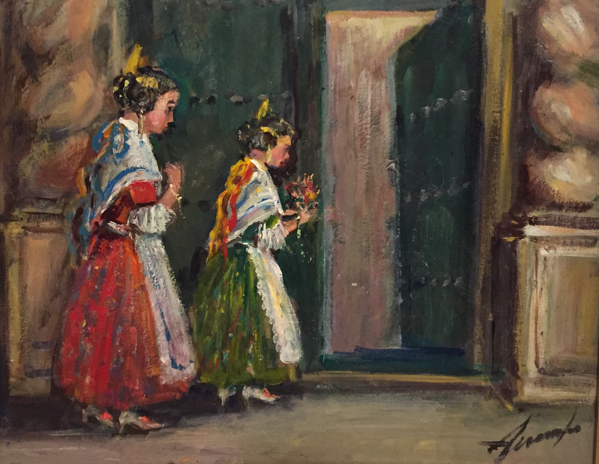 Painting by Valencian artist Francisco Arnedo Linares.